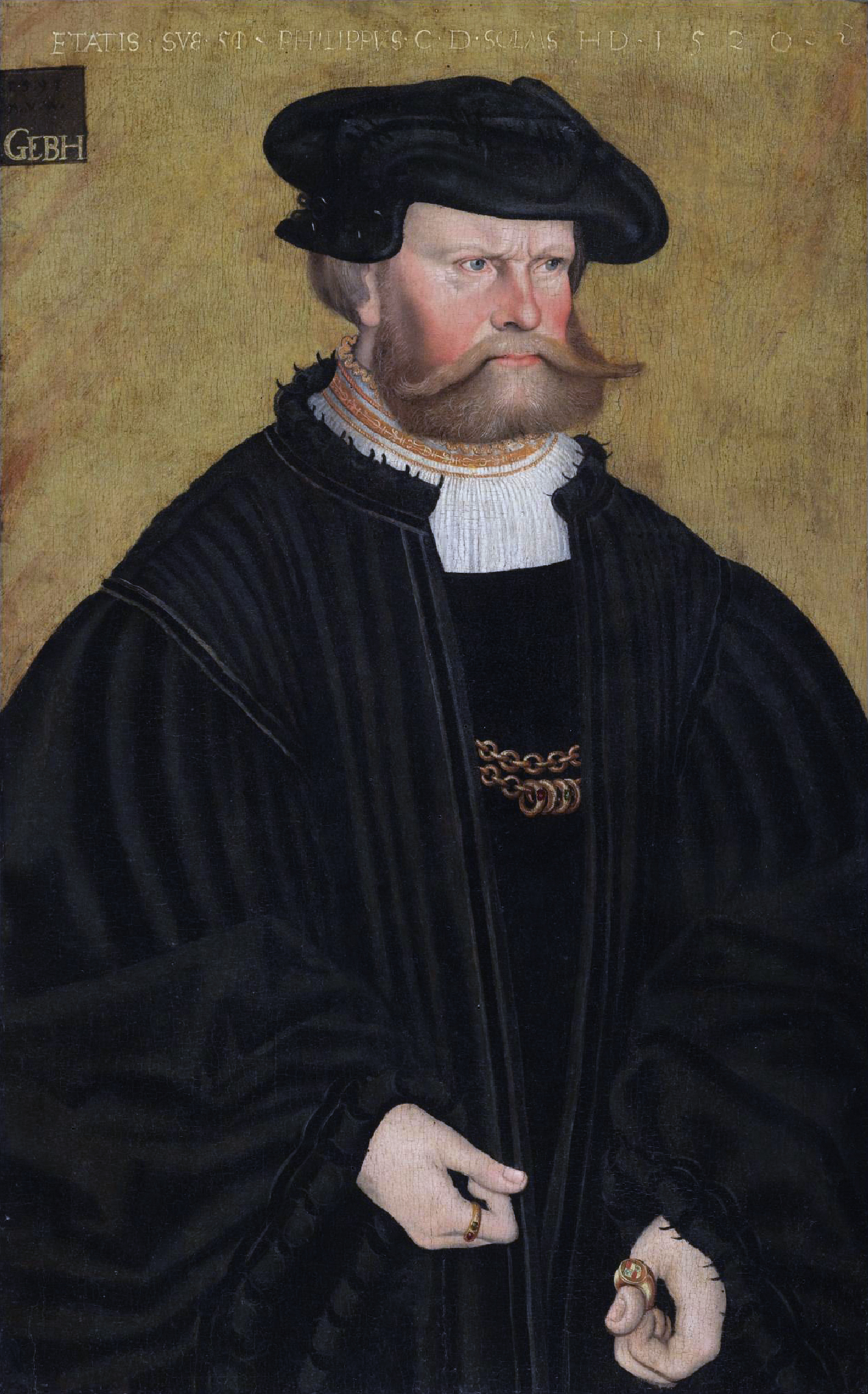 Portrait of Graf Phillip von Solms, standing half-lenght in black, with a black hat, at the age of fifty-one